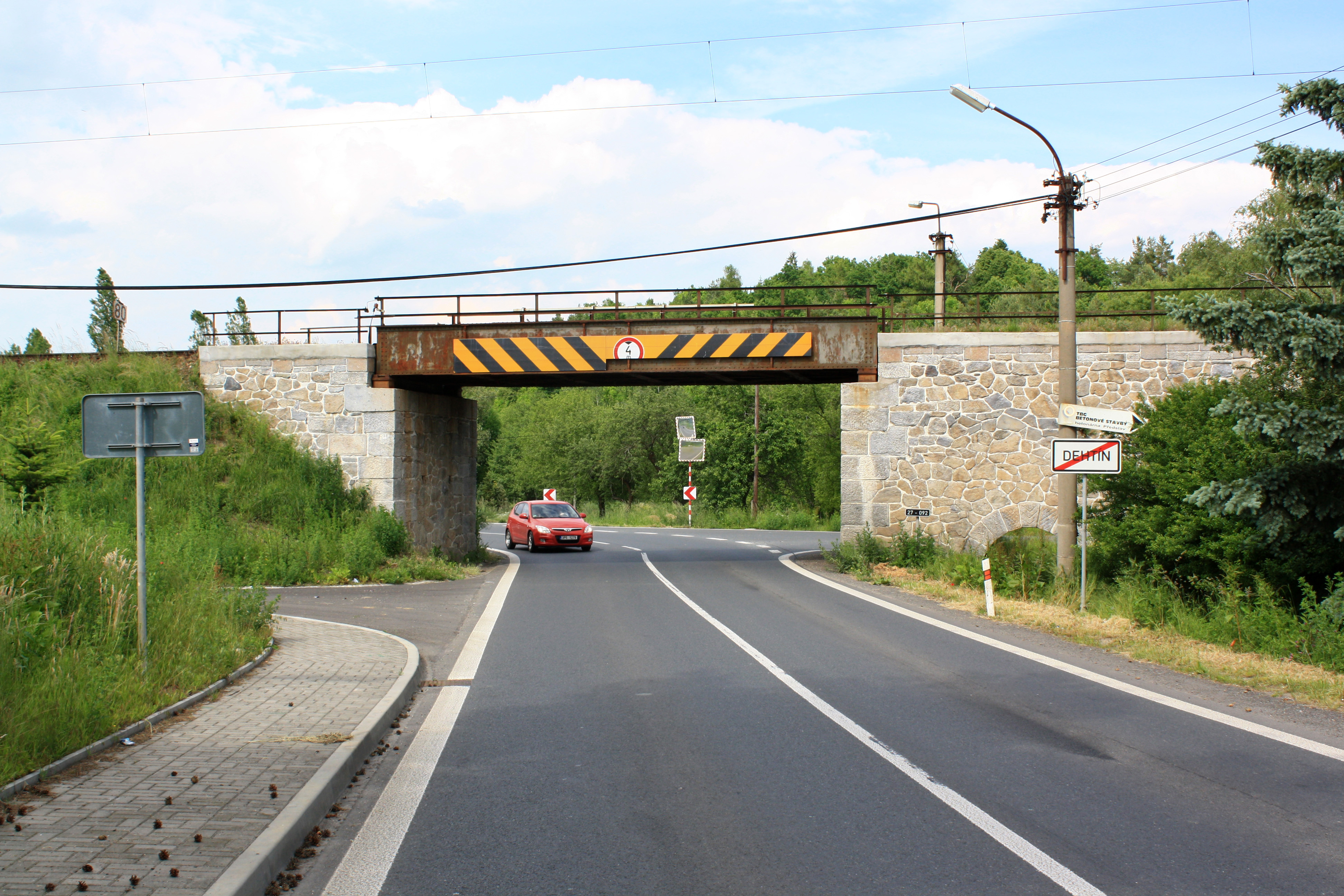 Road No. 27 in Dehtín, part of Klatovy, Czech Republic